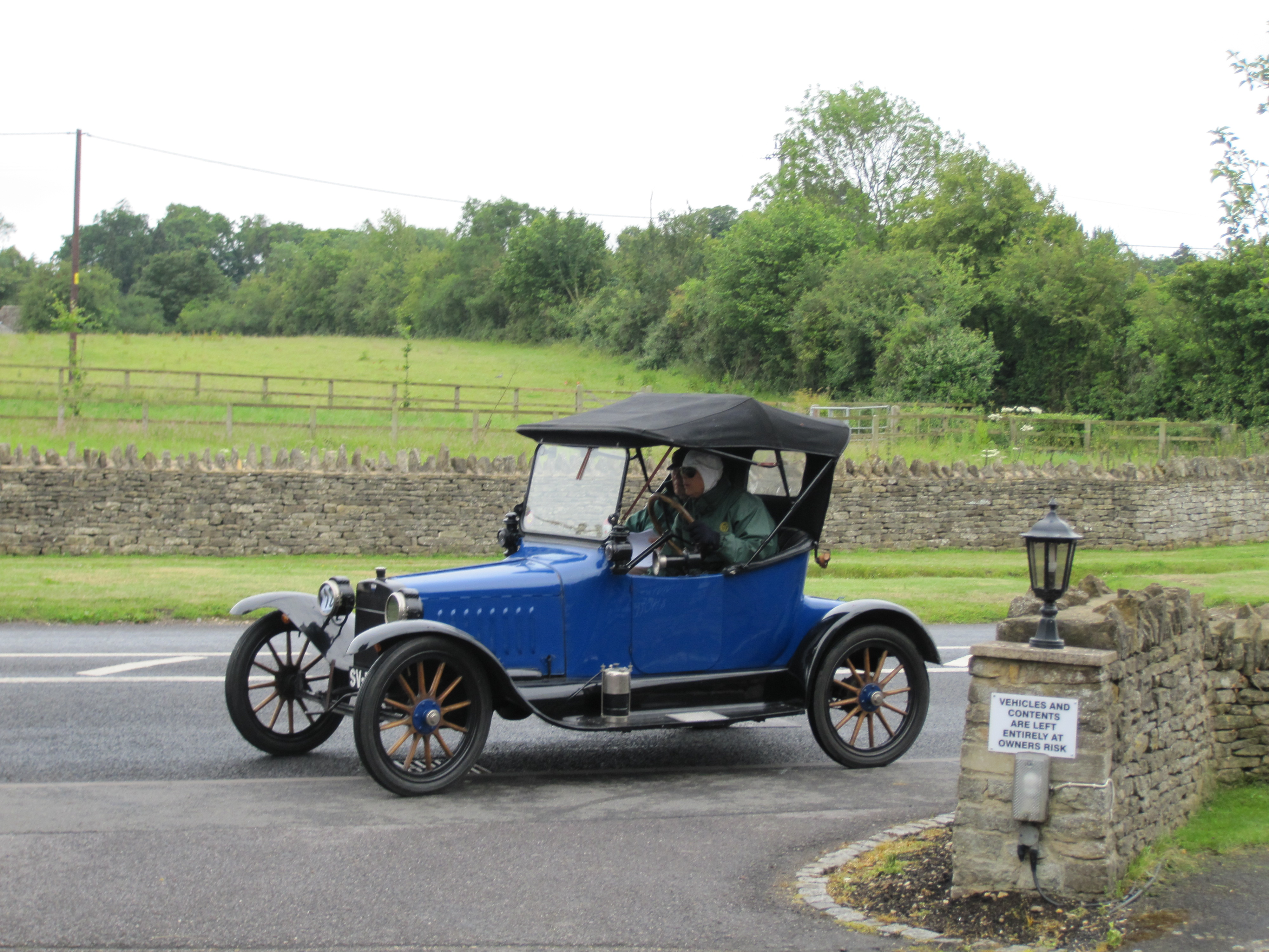 1916 Saxon 12 hp VCC Cotswold Caper